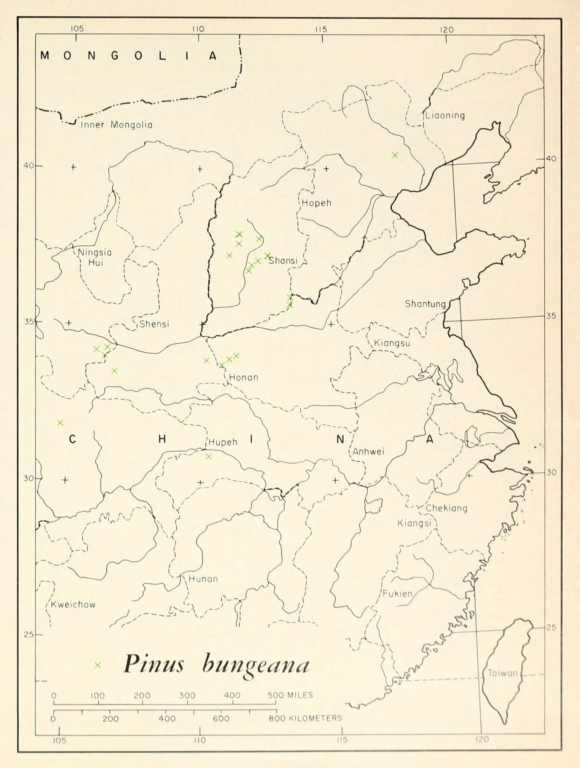 Map 19b. Pinus bungeana distribution